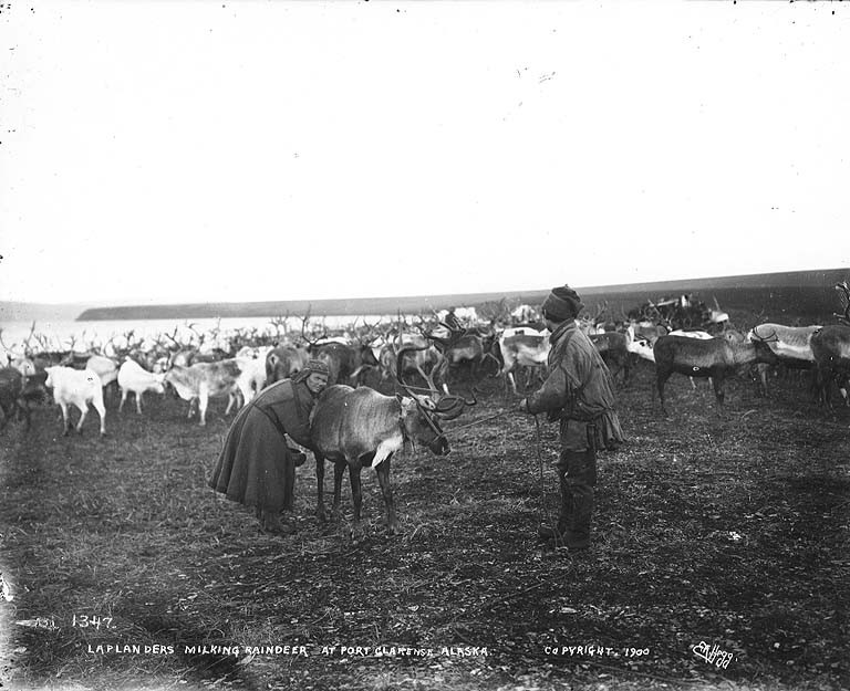 Shows a man and a woman in traditional dress . Caption on image: "Laplanders milking raindeer at Port Clarence, Alaska. 1900" Subjects (LCTGM): Reindeer--Alaska--Port Clarence; Milking--Alaska--Port Clarence Subjects (LCSH): Sami (European people)--Alaska--Port Clarence; Ethnic costume--Alaska--Port Clarence